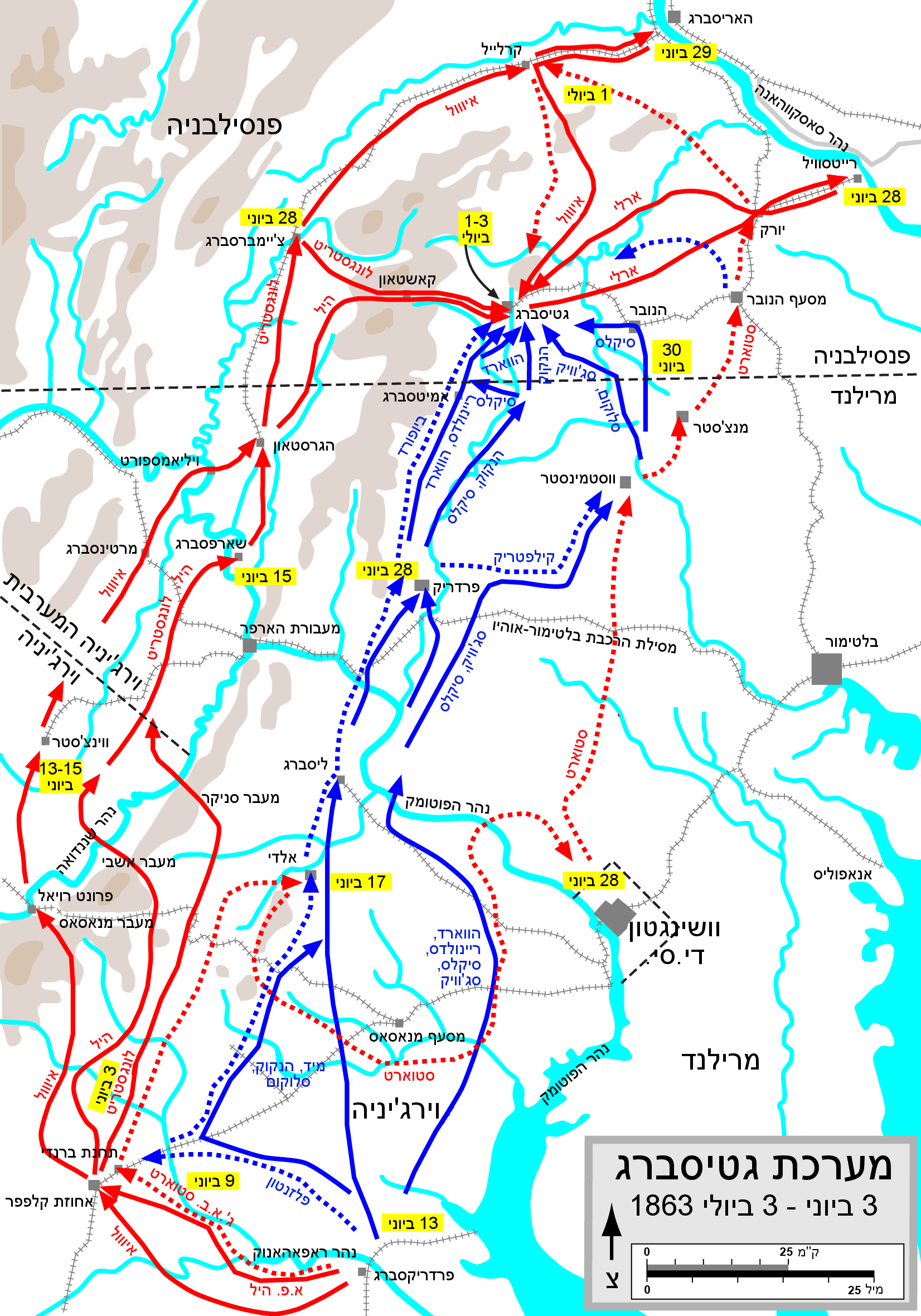 Gettysburg Campaign HE